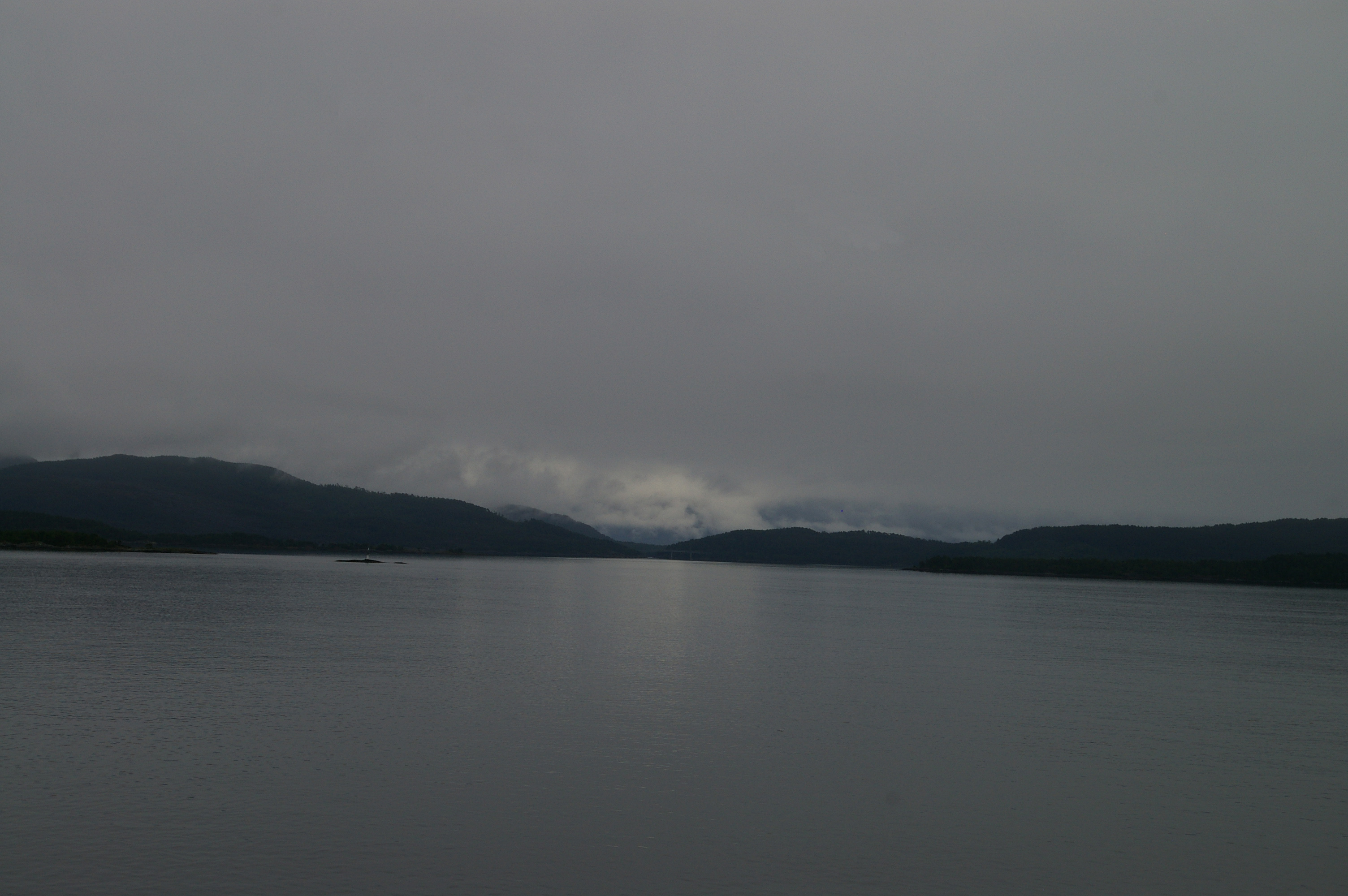 Solheimsfjorden in Flora, Sogn og Fjordane, Norway.